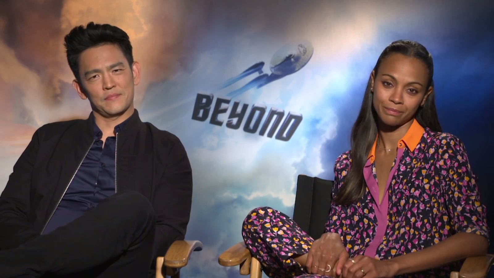 Zoe Saldana and John Cho at Star Trek Beyond Shot Out